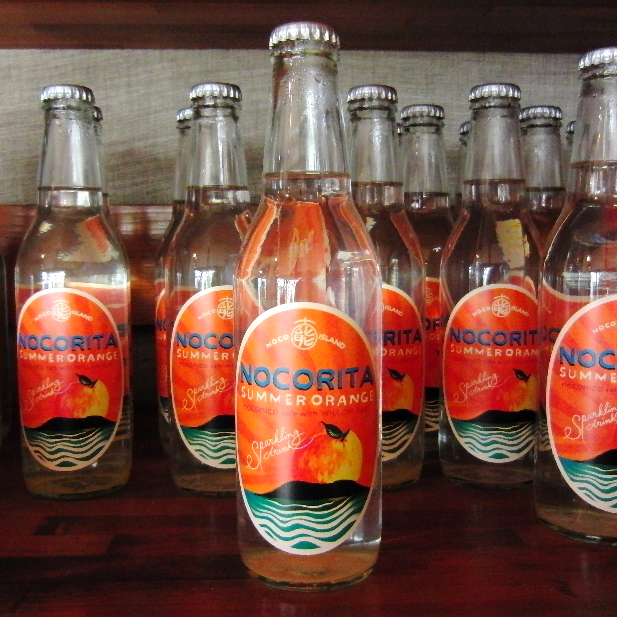 NOCORITA, cider made from Natsumikan of the Nokono-shima, Fukuoka, Japan.